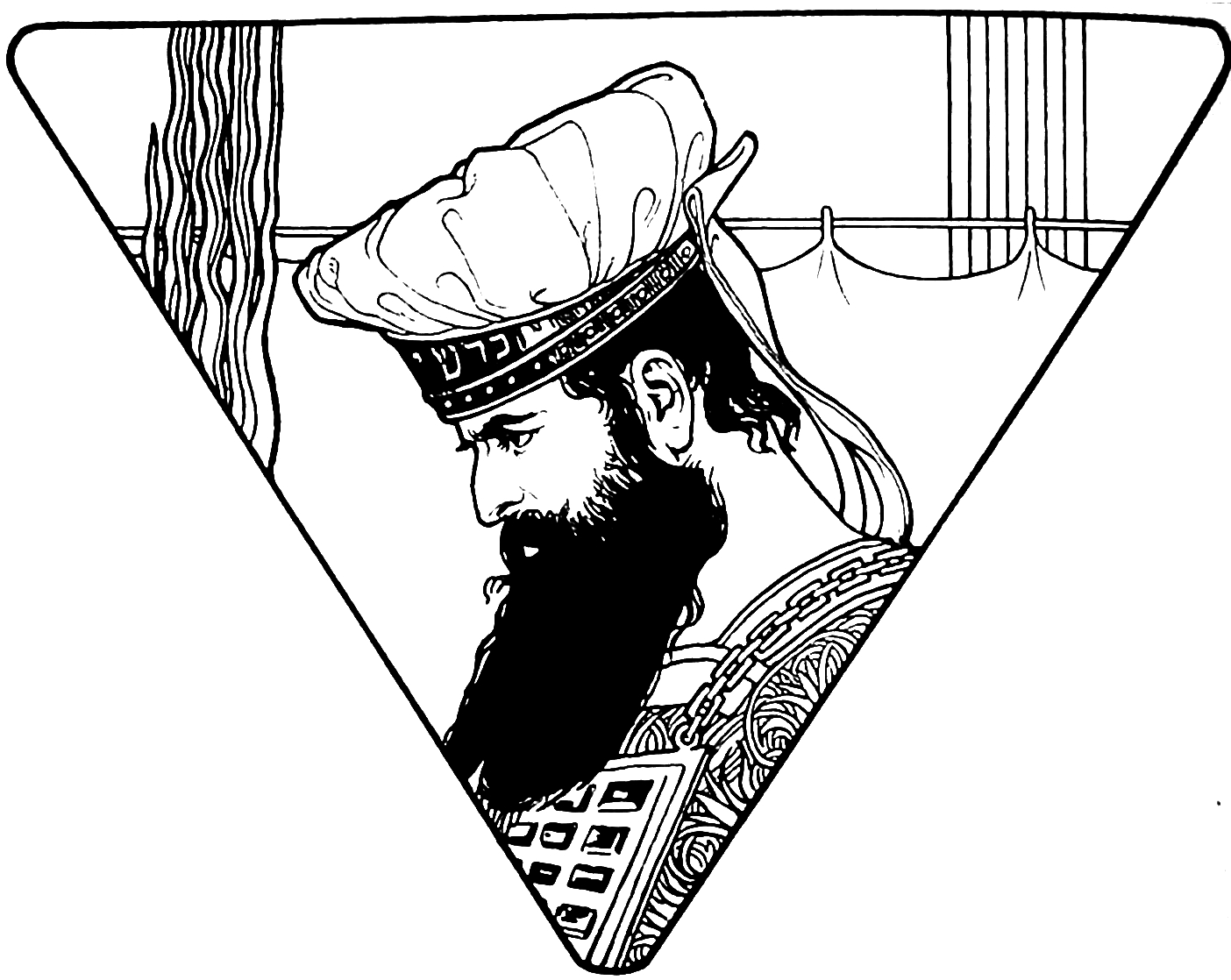 Jewish high priest.